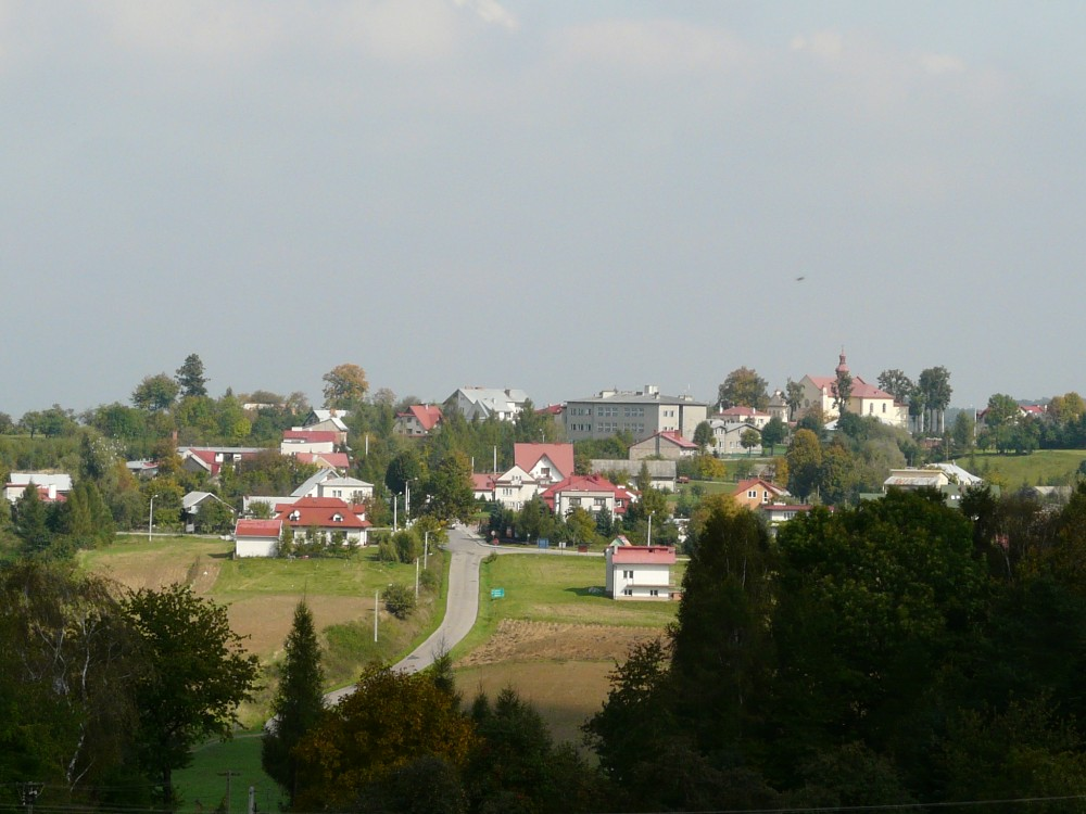 Skyline of Zalasowa (village in Poland); September 28, 2008